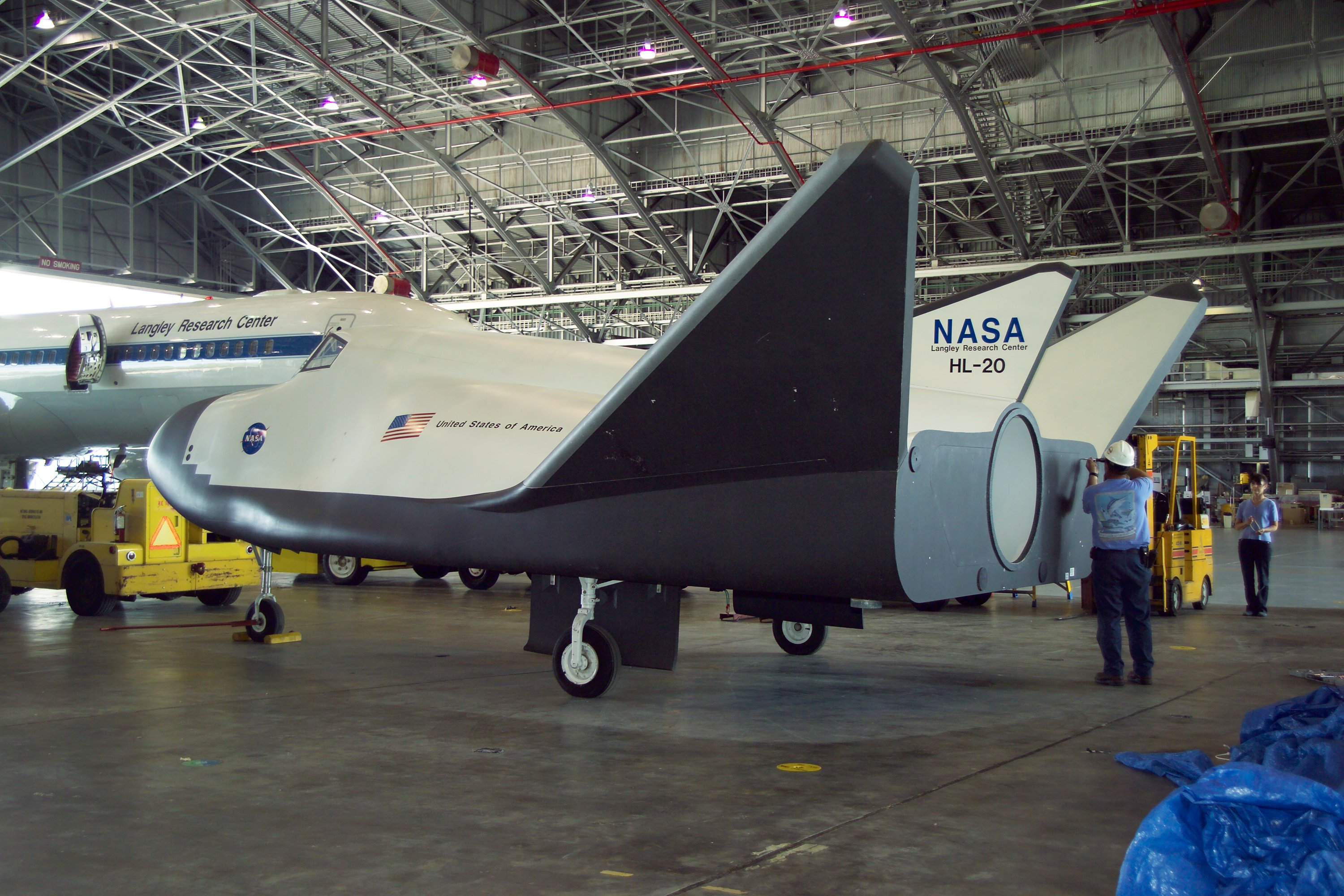 None.